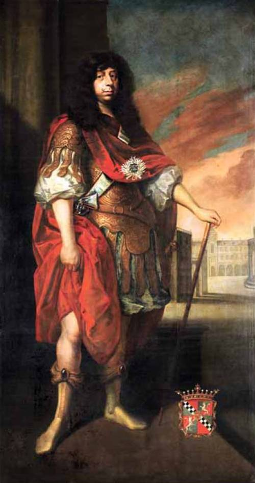 Portrait of Ludvig Holgersen Rosenkrantz (1628-1685)